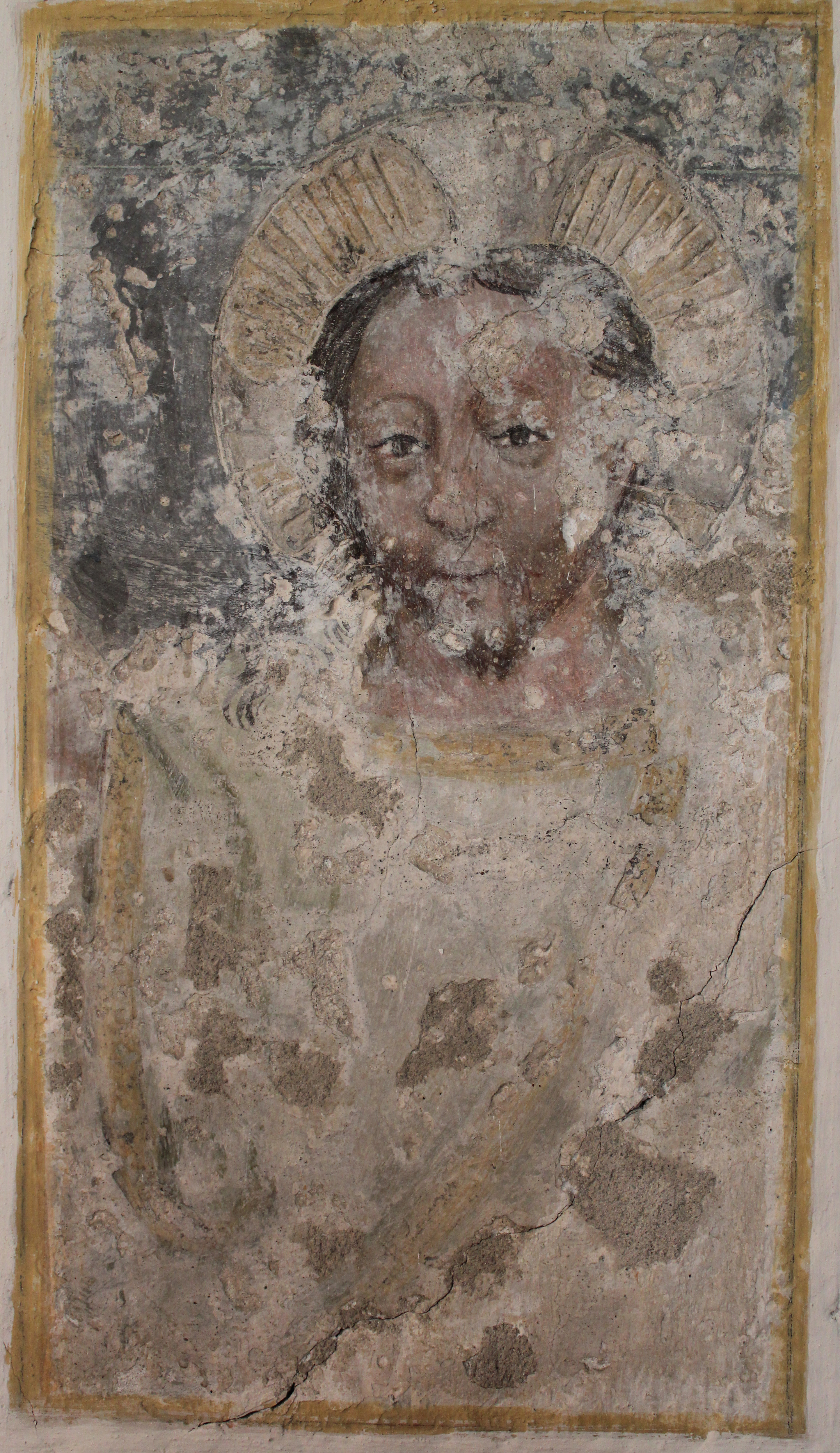 Church of Egg in the community of Hermagor